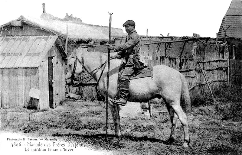 Gardian en tenue d'hiver à la manade des frères Desfonds en Camargue, France / A herdsman in winter attire at the Desfonds brothers' cattle farm in the Camargue region, France